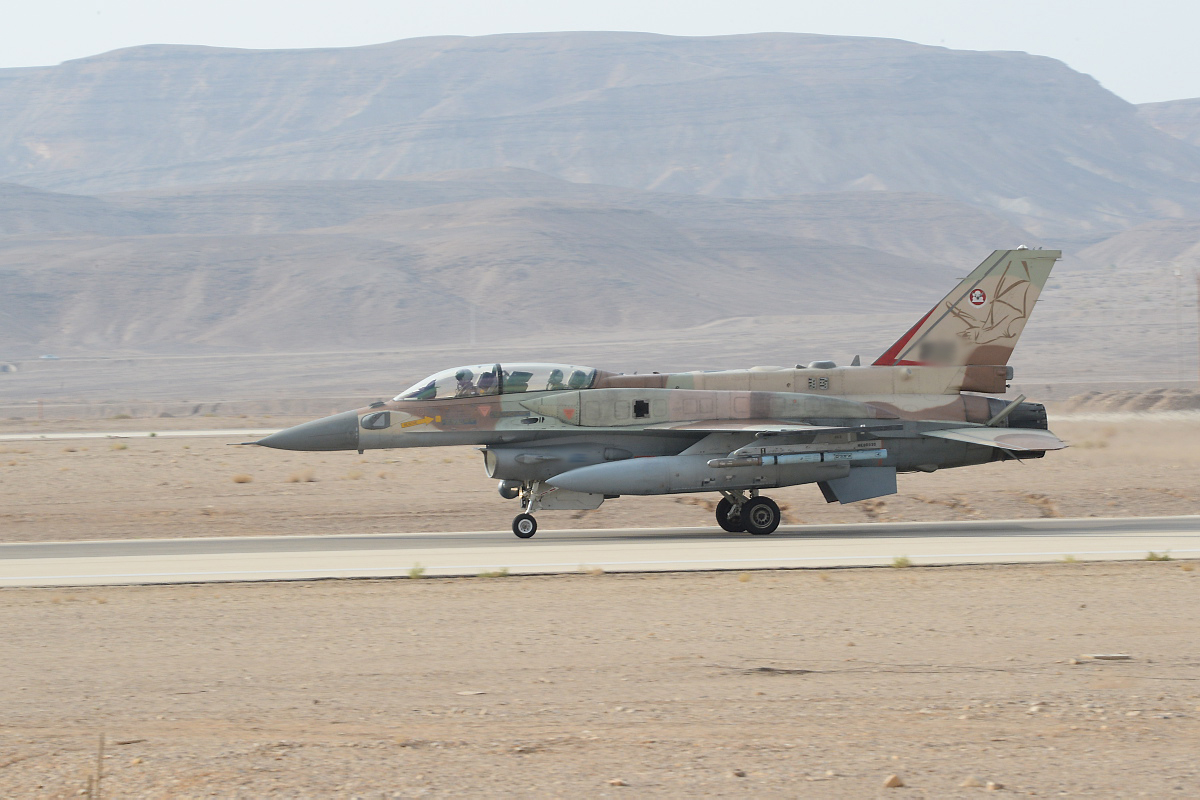 Blue Flag 2015. October 26, 2015.